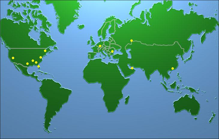 Eiffel Tower imitations locations. Map created by Kuxu.